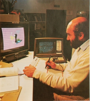 Guido Vanzetti at the computer